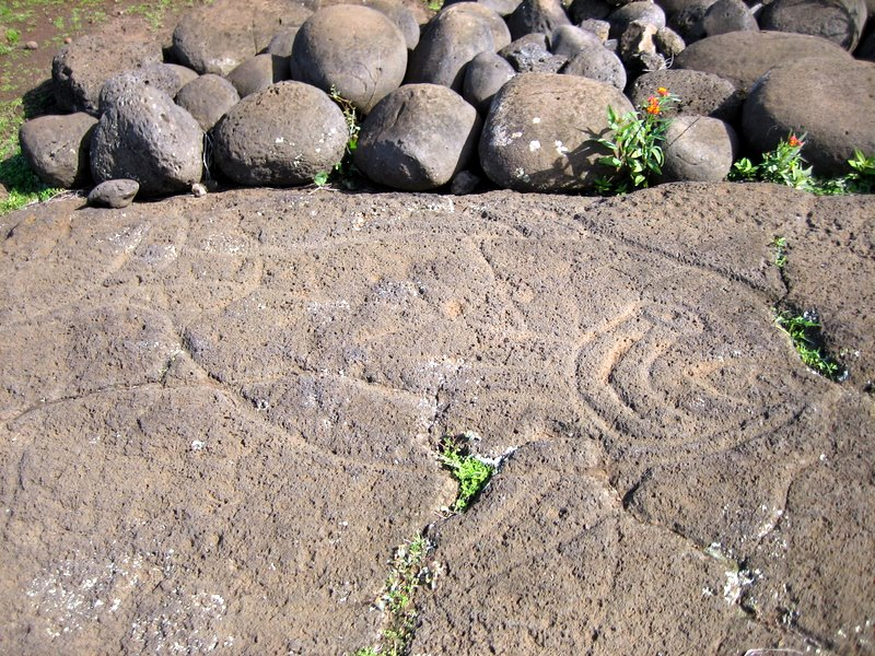 Photo taken by Ian Sewell, July 2006 A petroglyph found near Ahu Tongariki.